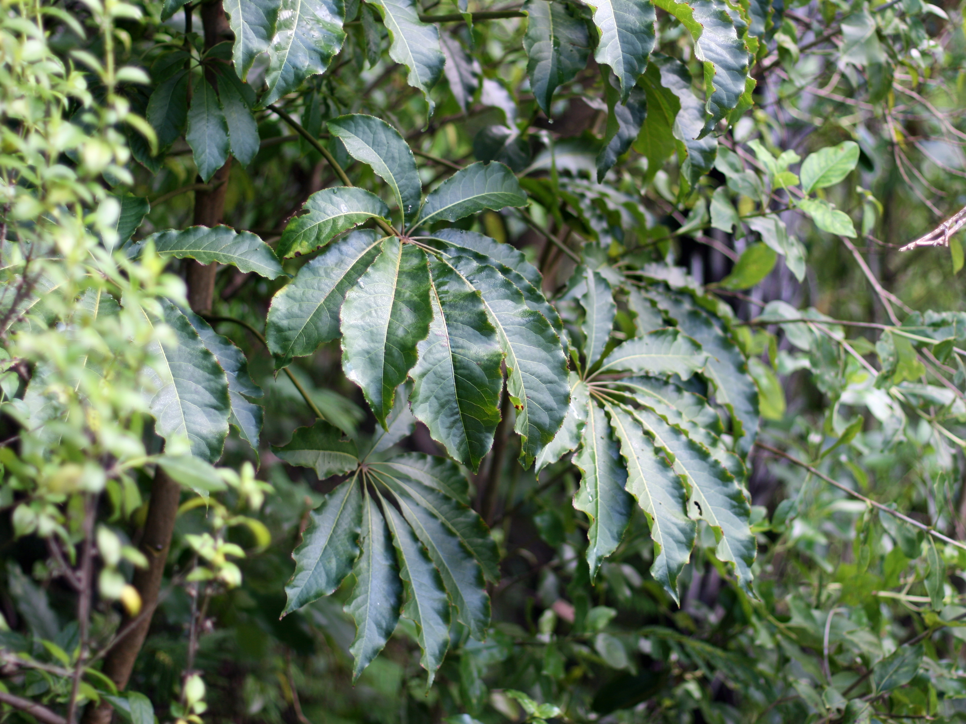 A young Patē (Schefflera digitata) in regenerating native forest at Mangemangeroa Reserve, Howick, Auckland.